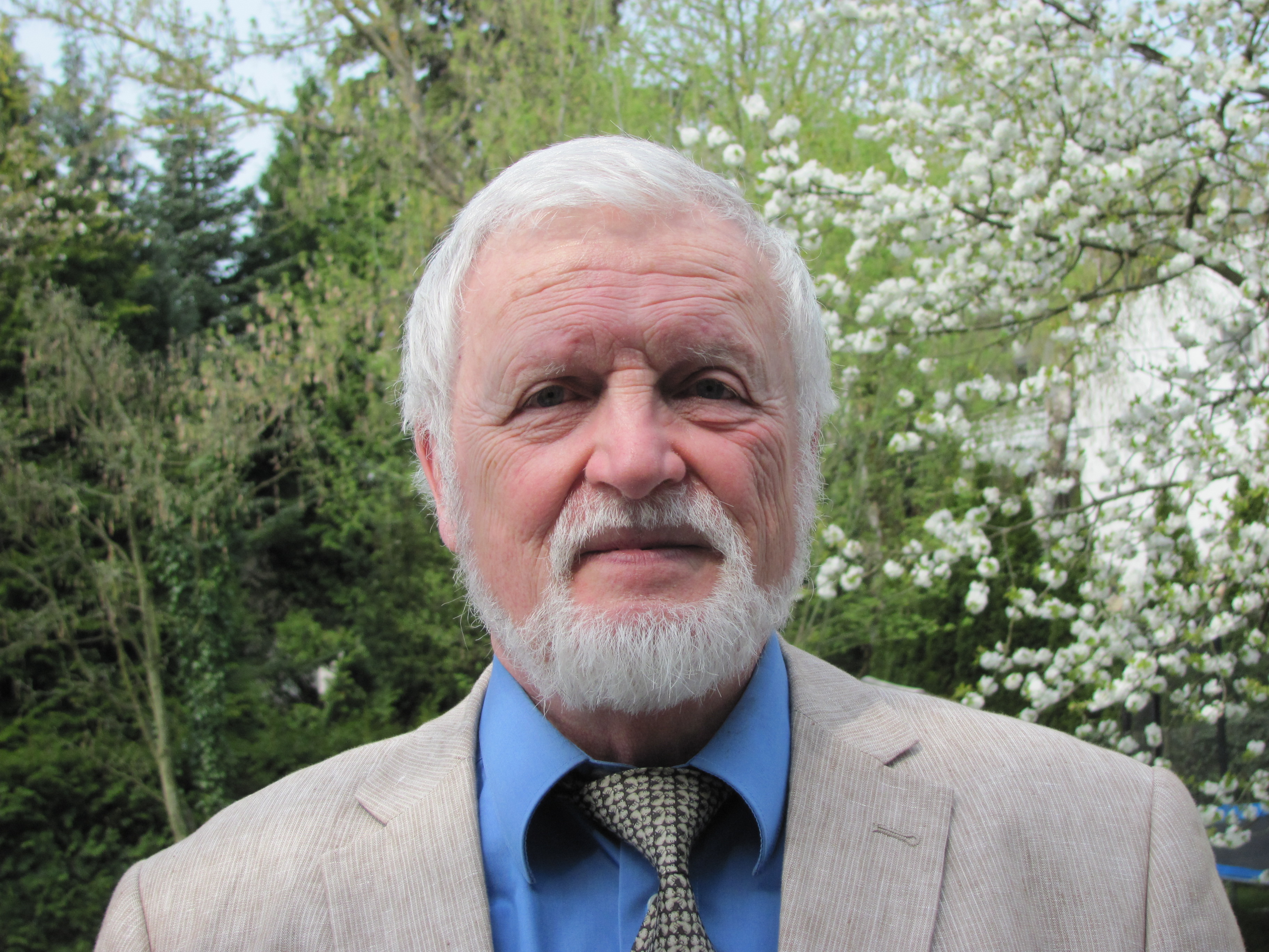 Eckhard Meise